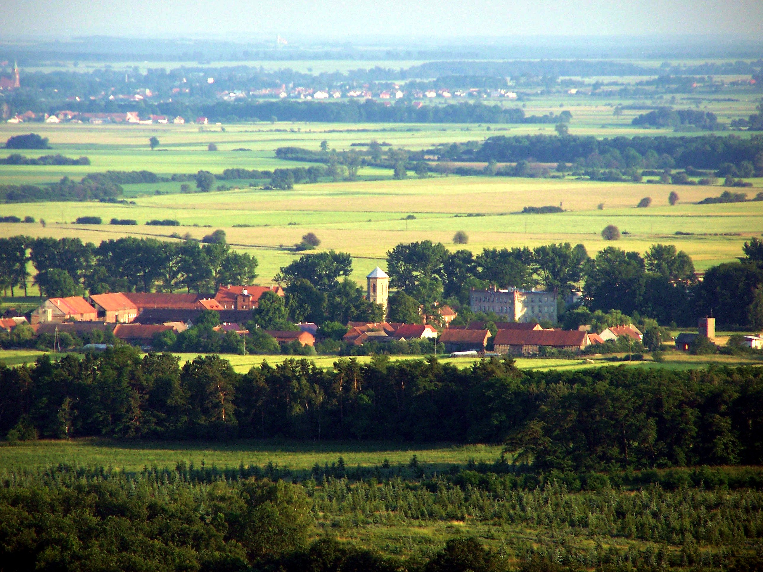 View on the centre of Górzyn (Lower Silesia)